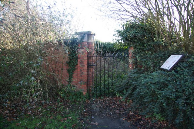 Scarrington Pinfold. Overgrown pinfold by the famous Scarrington Horseshoes 1085311 This circular enclosure dates from the early 19th century, though there has been a pinfold on the site for centuries